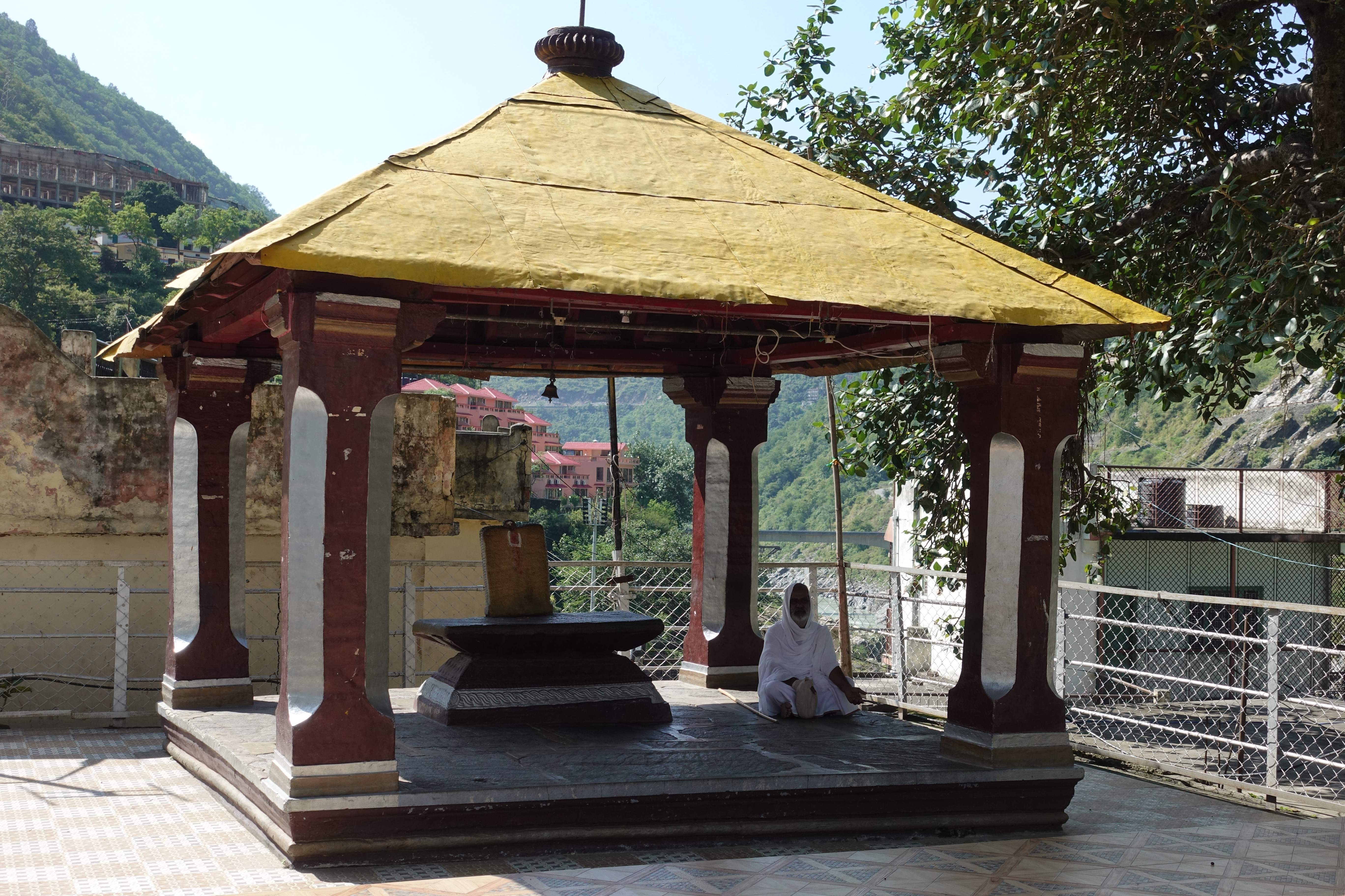 Place where Lord Raghunath (Lord Ram) performed penance